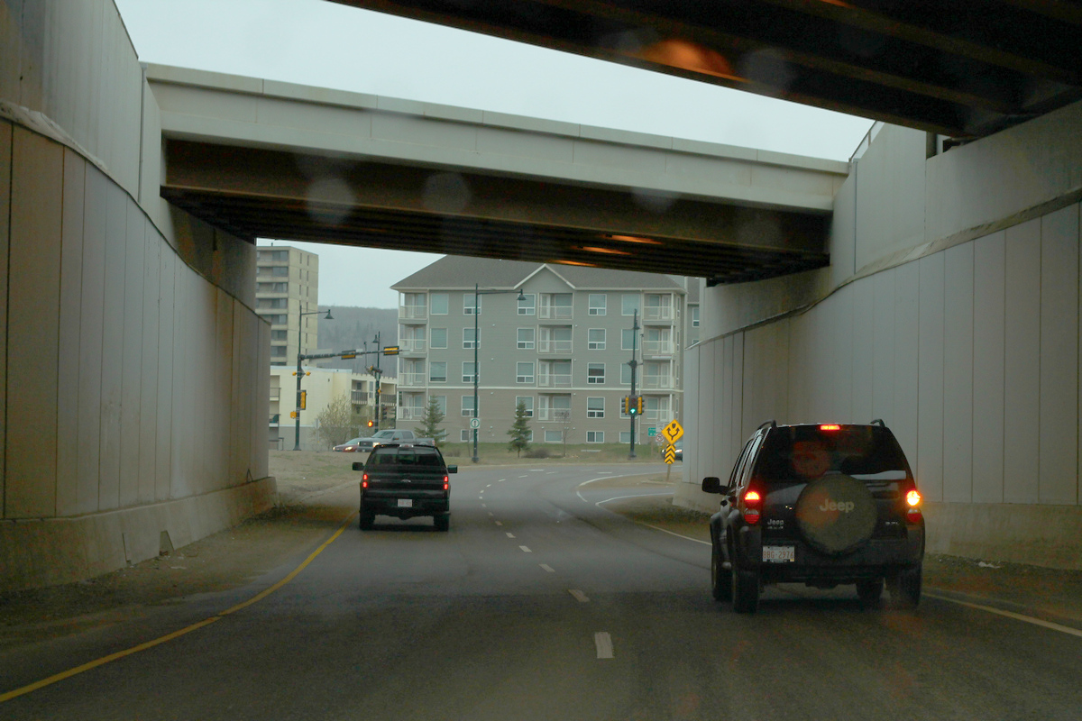 Franklin Avenue Tunnel under Alberta Highway 63 in downtown Fort McMurray, Alberta, Canada.